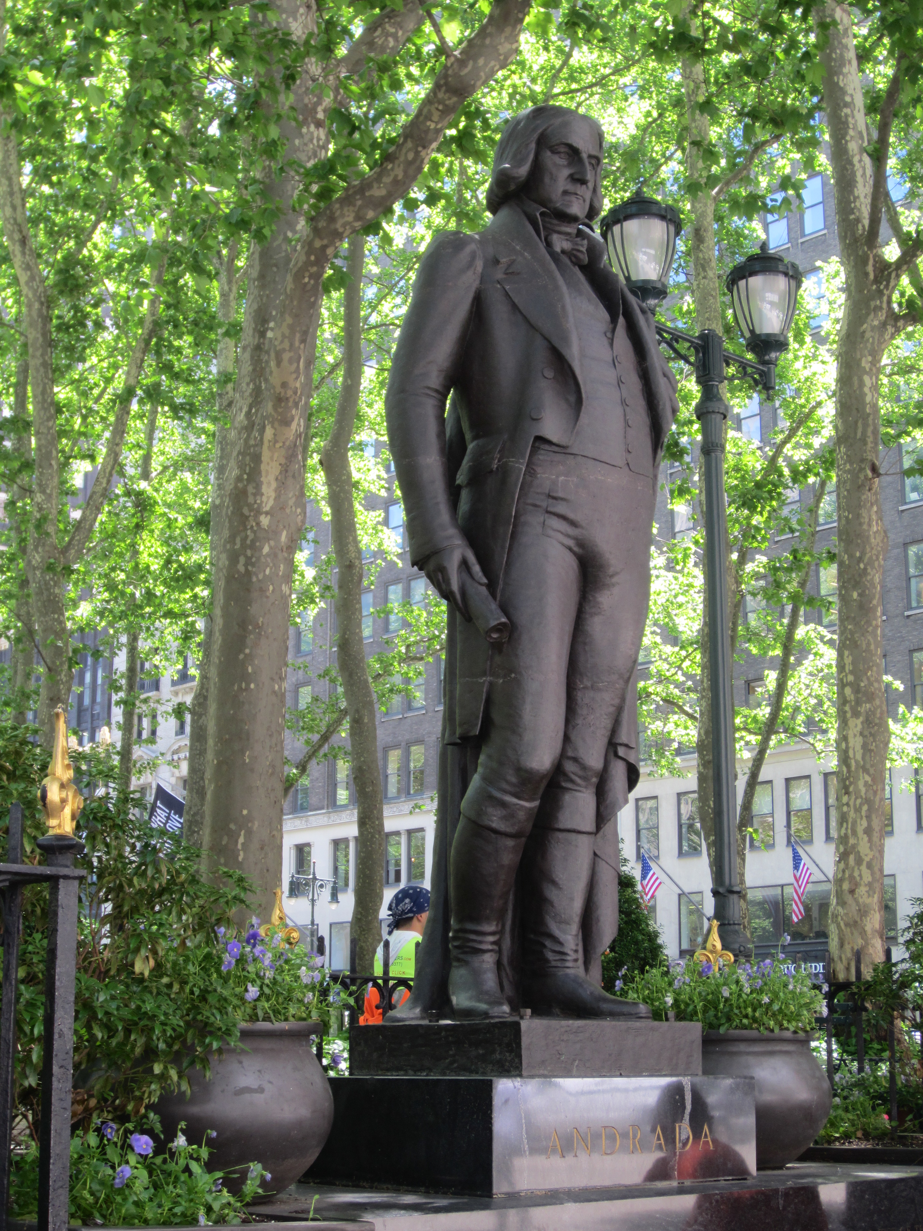 Bryant Park, New York City (May 2014)